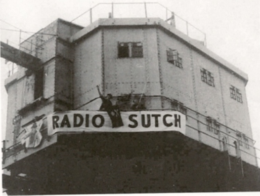 Pirate radio station Radio Sutch on the Shivering Sands guntower; used with permission from Colin Dale